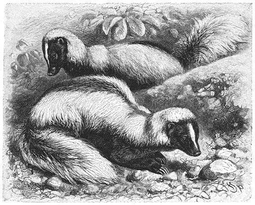 Surilho (Mephitis suffocans). Currently: Conepatus humboldtii